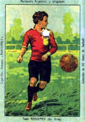 Collectible card of "Team Reformer", an association football team of Argentina.